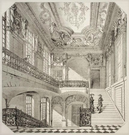 Old illustration of the building interior of Ecole centrale des arts et manufactures. Drawing by Lancelot, published on Le Magasin Pittoresque, 1850.